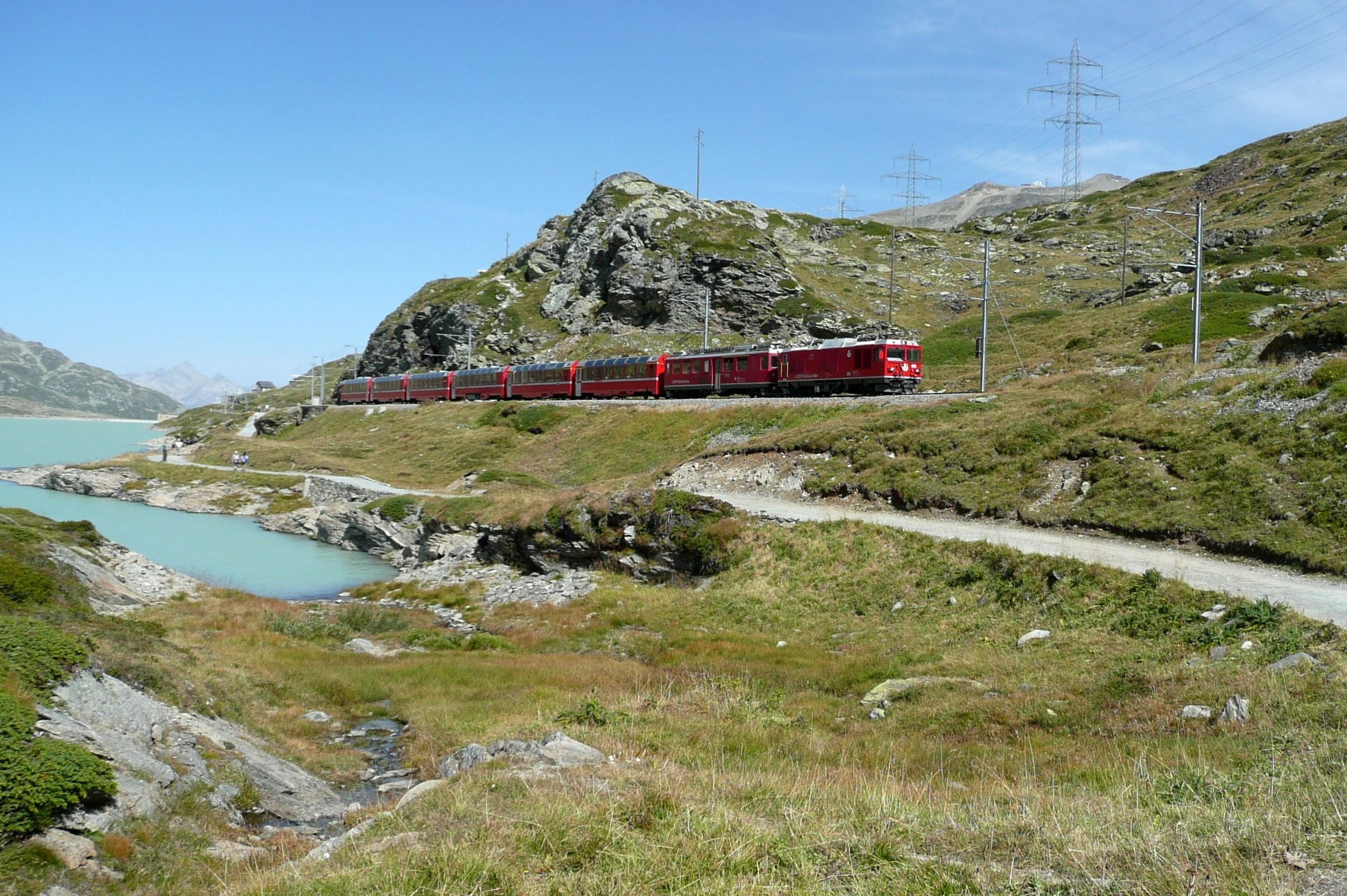 Bernina Express with Lago Bianco